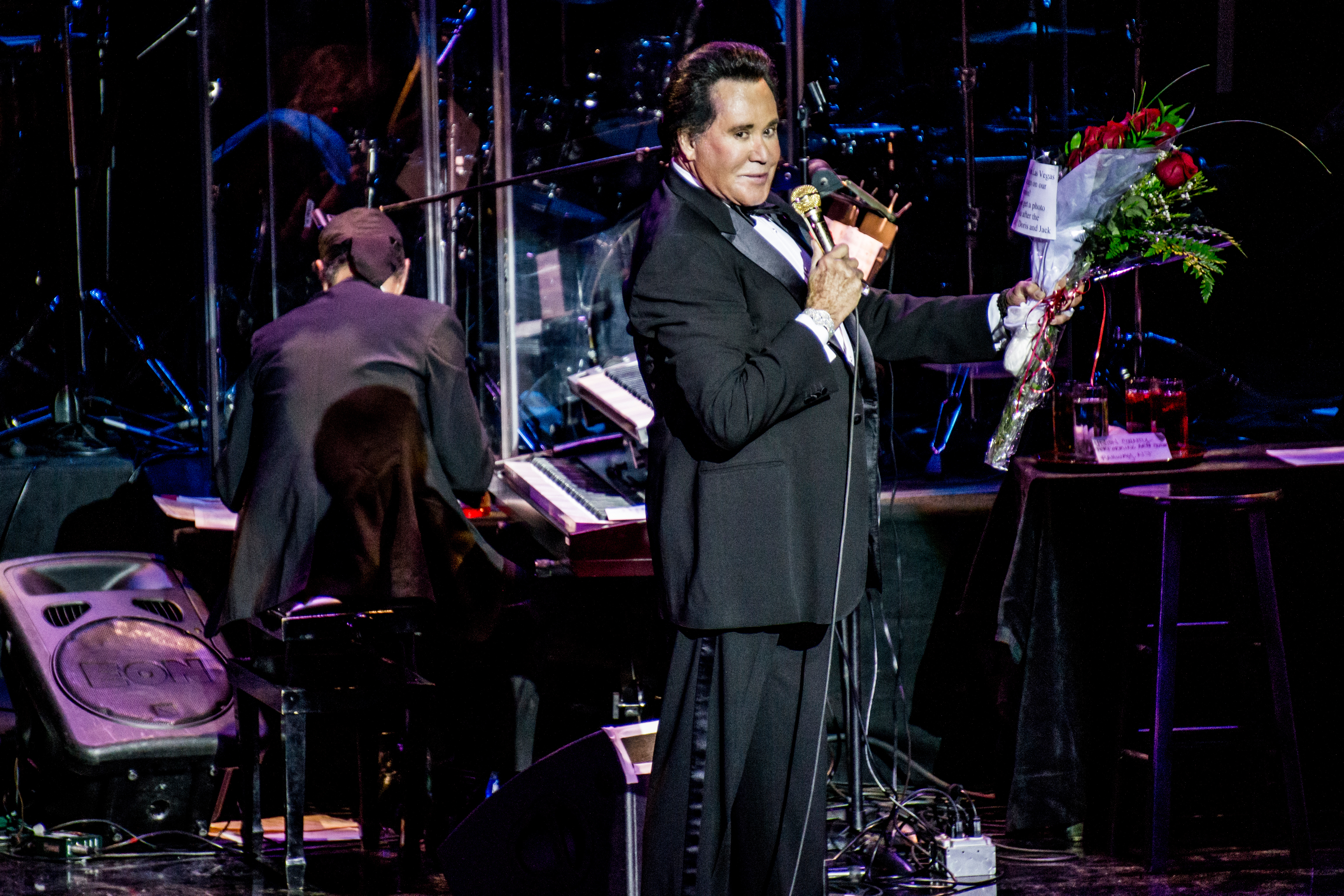 Wayne Newton in concert at the Union County Performing Arts Center in Rahway, N.J.